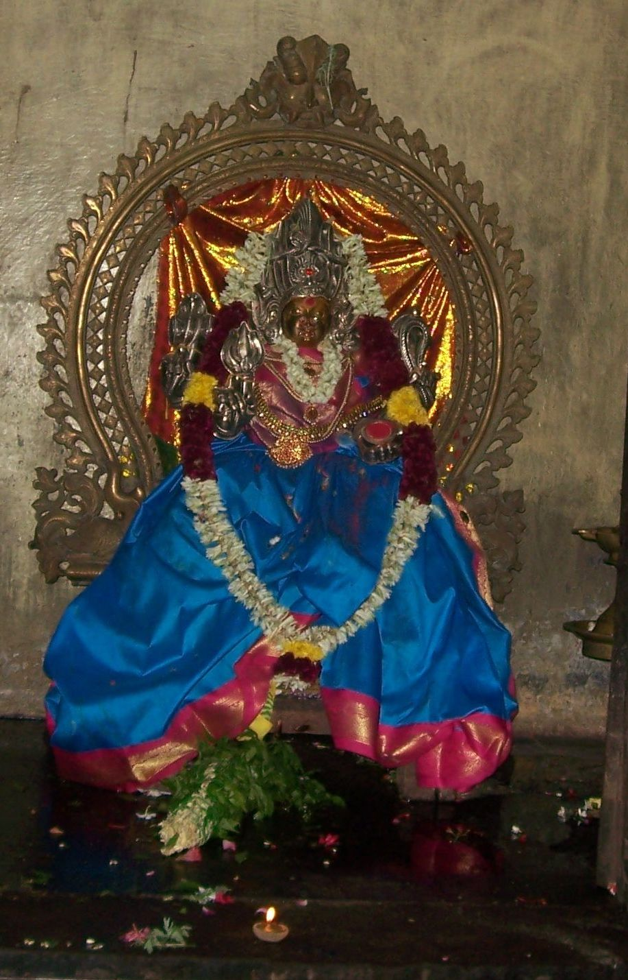 The (Urchavar) Statue of the Vekkali Amman Temple, Woraiyur, Tiruchirappalli